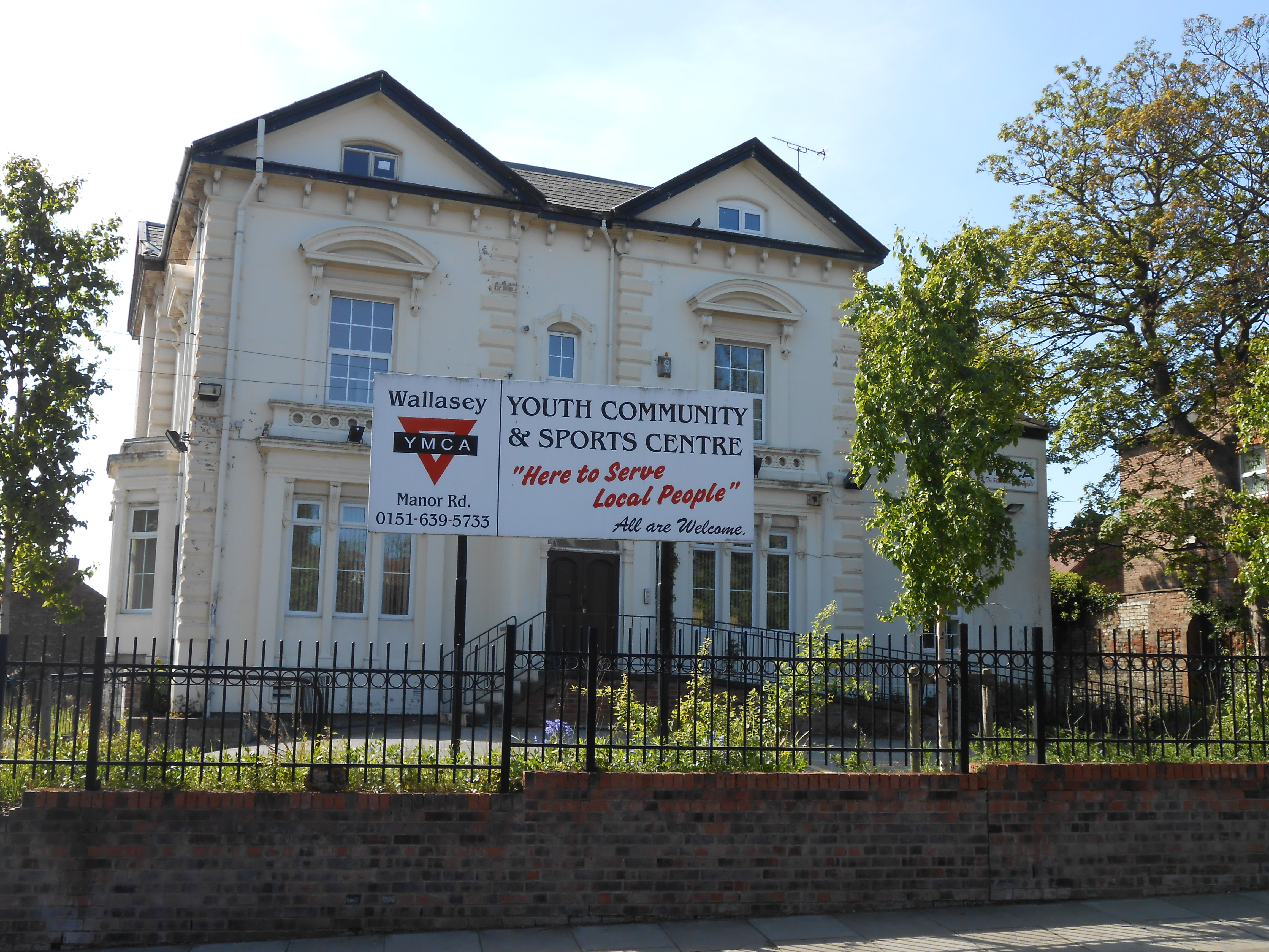 YMCA, Manor Road, Wallasey, Wirral, Merseyside, England.